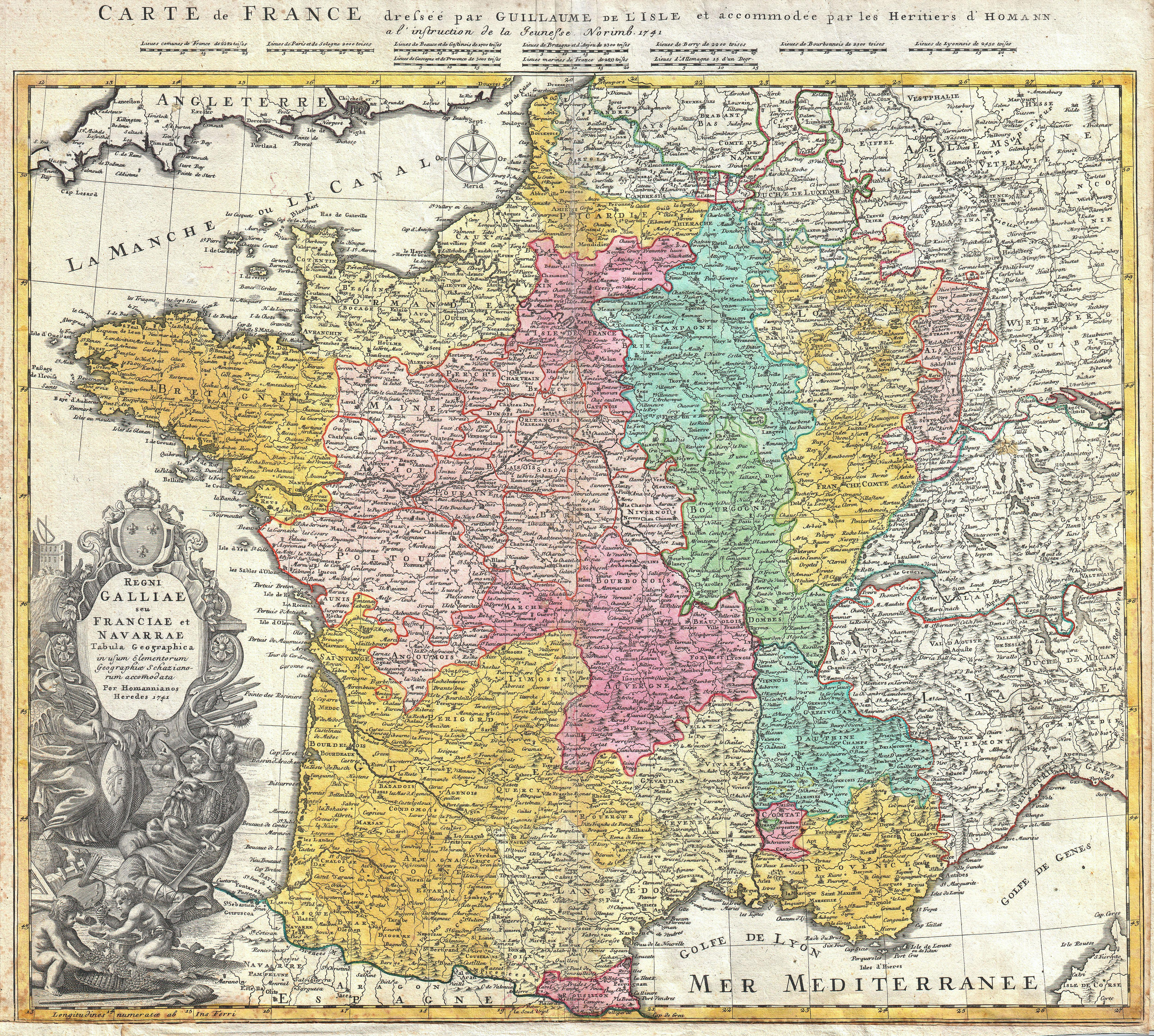 A beautifully detailed 1741 Homann Heirs map of France based upon earlier work of Guillaume de L’Isle. Depicts the Kingdoms of France and Navarre along with parts of Italy, Switzerland, Spain and Germany. The map notes fortified cities, villages, roads, bridges, forests, castles and topography. Elaborate title cartouche in the lower left quadrant features A bearded warrior with a sword hidden behind his back confronting a warrior woman with a gorgon shield. Above this couple is a large baroque title area surmounted by the French royal crest. Below the couple there are two children making wine. Map scales in upper margin. Alternative title in French in top margin, above scales Carte de France dressee par Guillaume de L'Isle et accommodee par les Heritiers d'Homann a l'instruction de la Jeunesse Norimb. 1741. This map was drawn in Nuremberg by J. B. Homann and included in the Homann Heirs Maior Atlas Scholasticus ex Triginta Sex Generalibus et Specialibus…. .